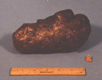 High expansion intumescent. The black "blob" started out as a small orange chunk, just like the one that is shown, after being in a furnace @ 500°F for about an hour. Intumescents are used in passive fire protection as components in firestops, fireproofing, fire damper grids instead of mechanical closures inside and gaskets for fire doors.